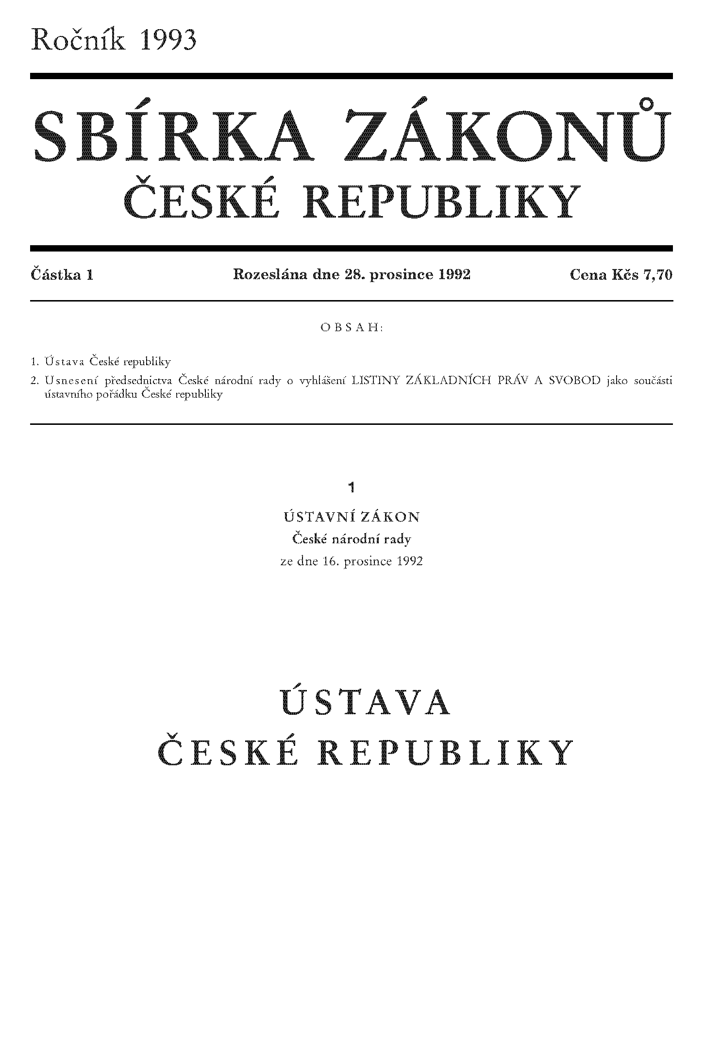 Czech Collection of Laws' official issue with the 1993 Constitution No. 1/1993 Coll. Česky: Stejnopis Sbírky zákonů s Ústavou České republiky (1/1993 Sb.) a Listinou základních práv a svobod (2/1993 Sb.)